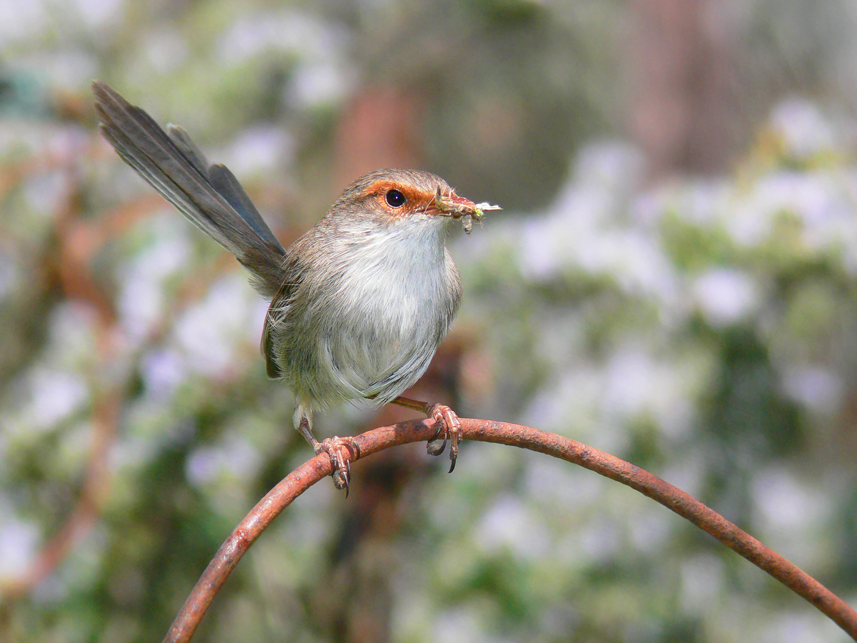 A Female Superb Fairy-Wren Malurus cyaneus with an insect in her beak, taken in south eastern Australia